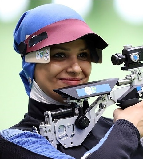 2016 Summer Olympics - Women's shooting